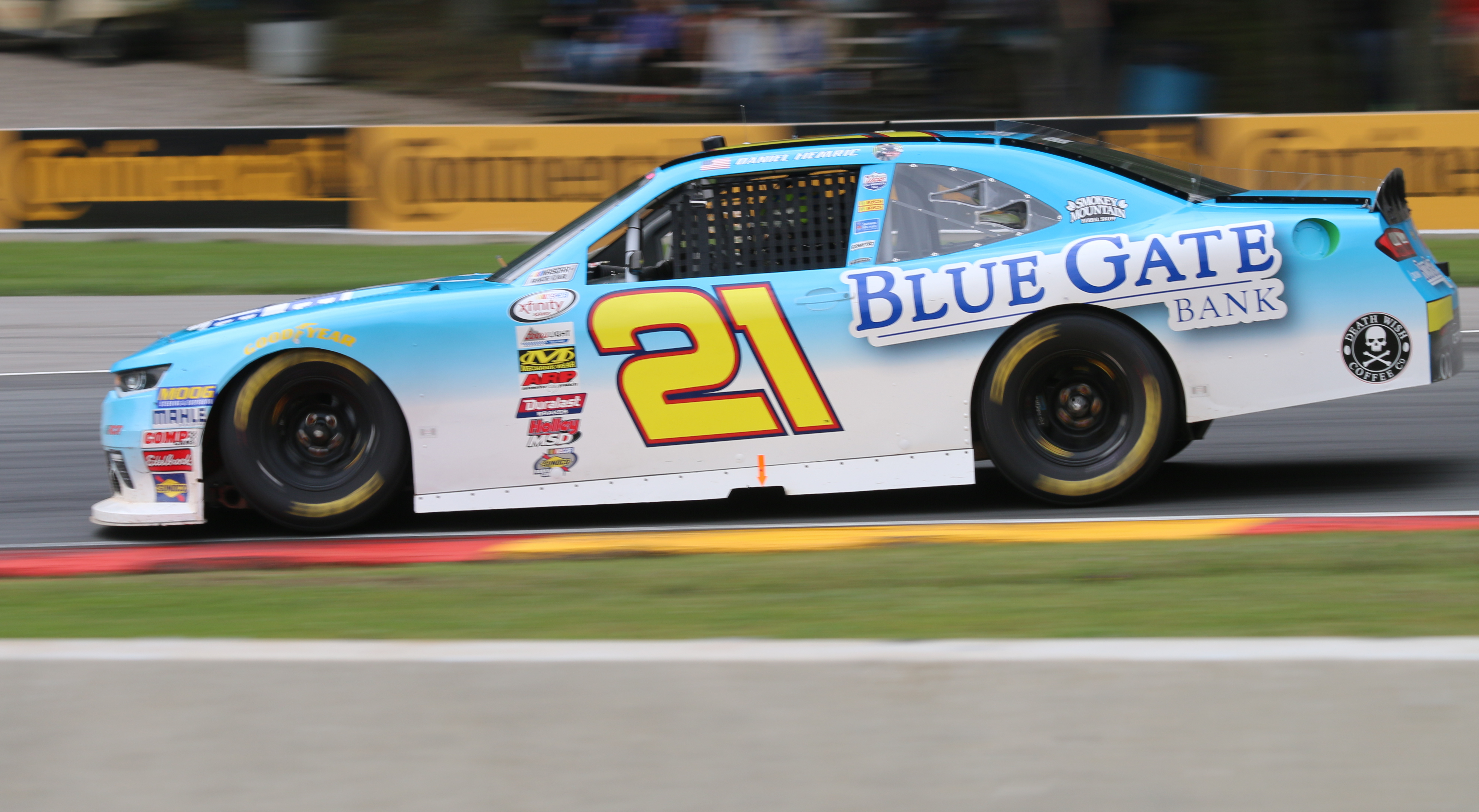 The Chevrolet Camaro of Daniel Hemric at the NASCAR Xfinity Series Johnsonville 180.